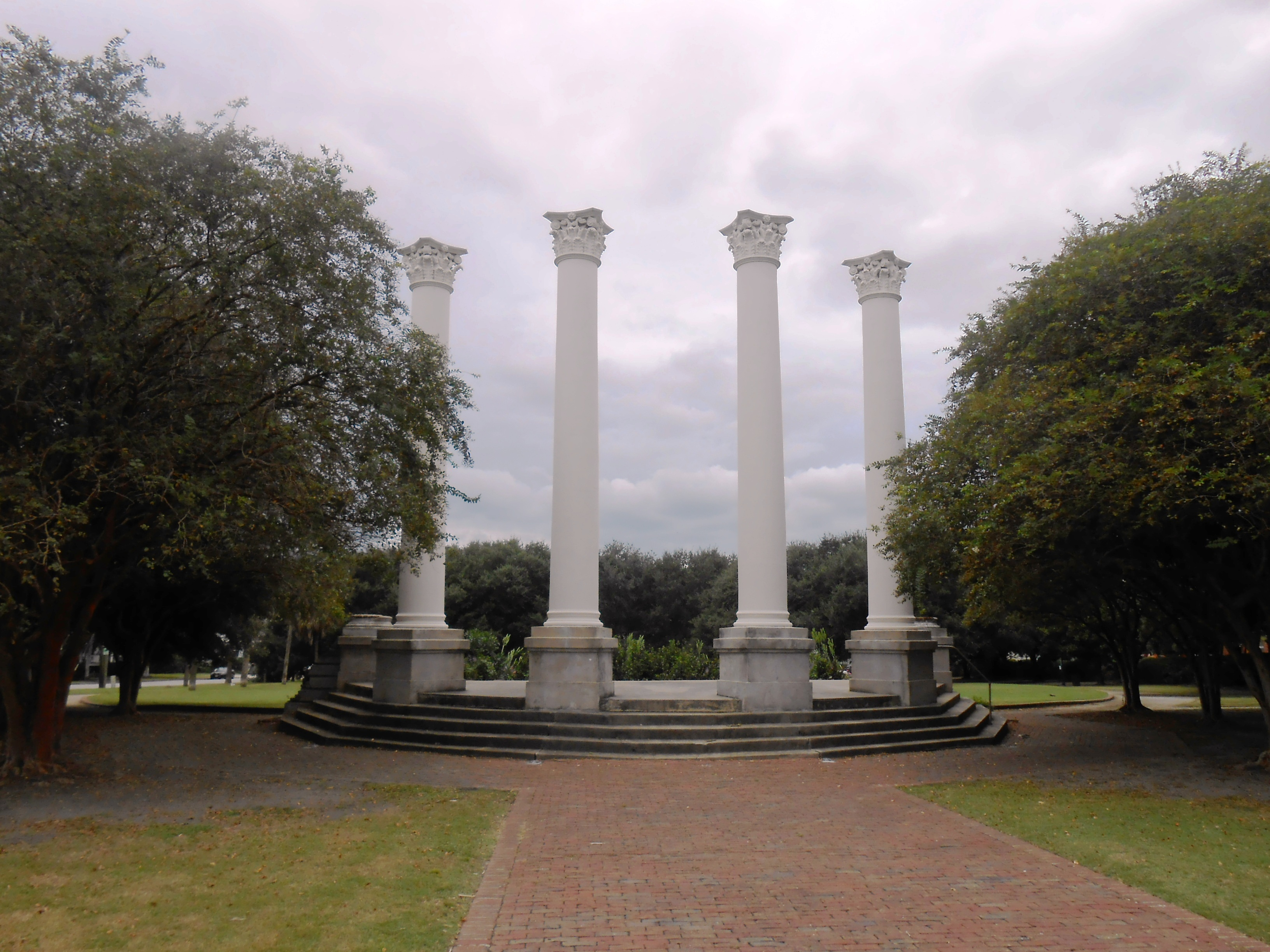 The columns are all that remain of the old Charleston Museum following a fire.